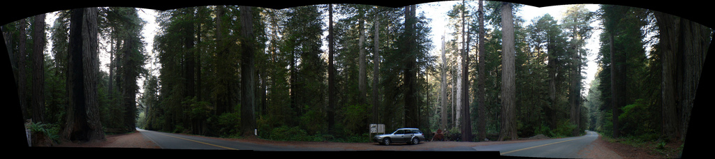 Redwood National Park